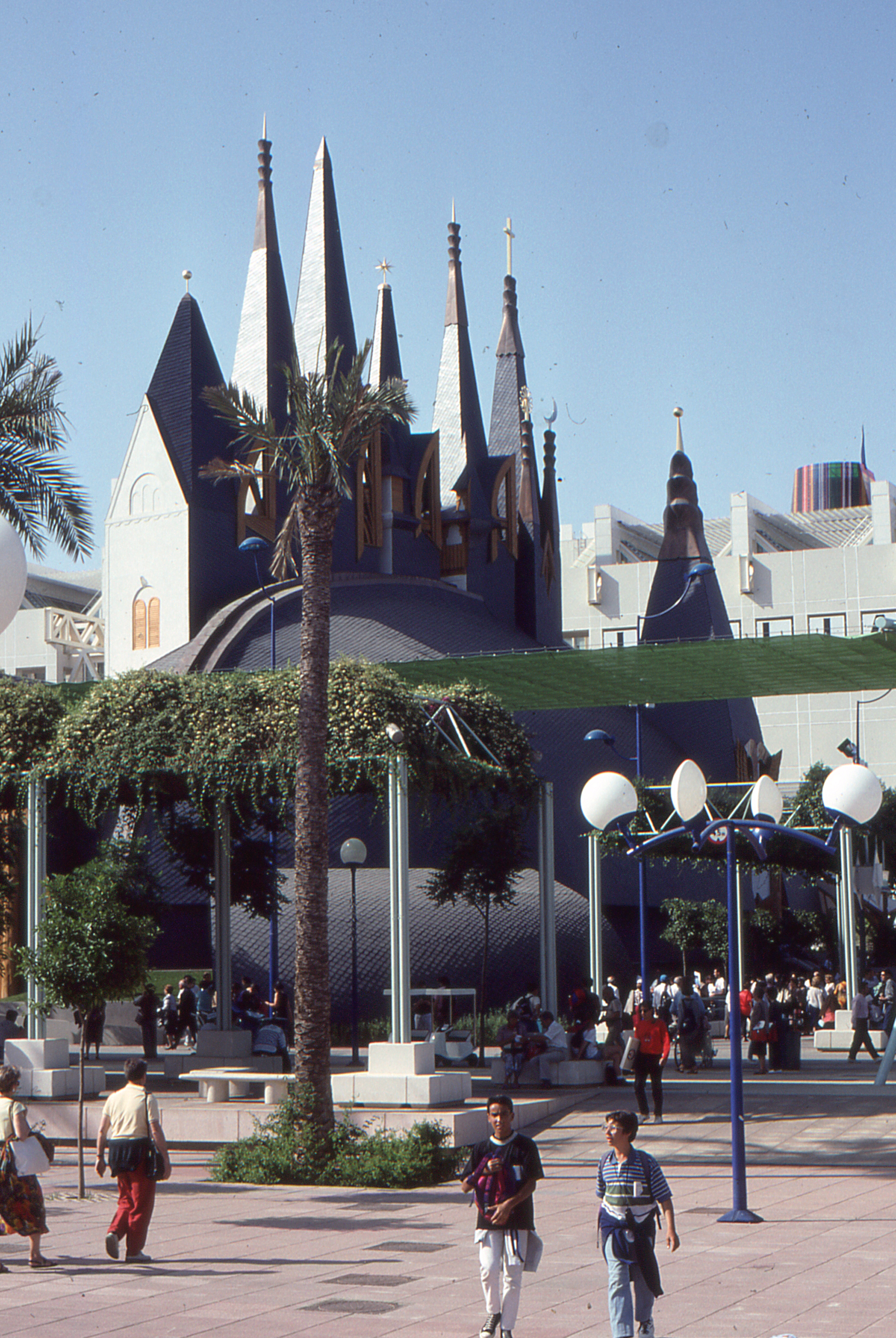 Pavilion of Hungary. Olympus OM10 + Kadachrome 100 ASA